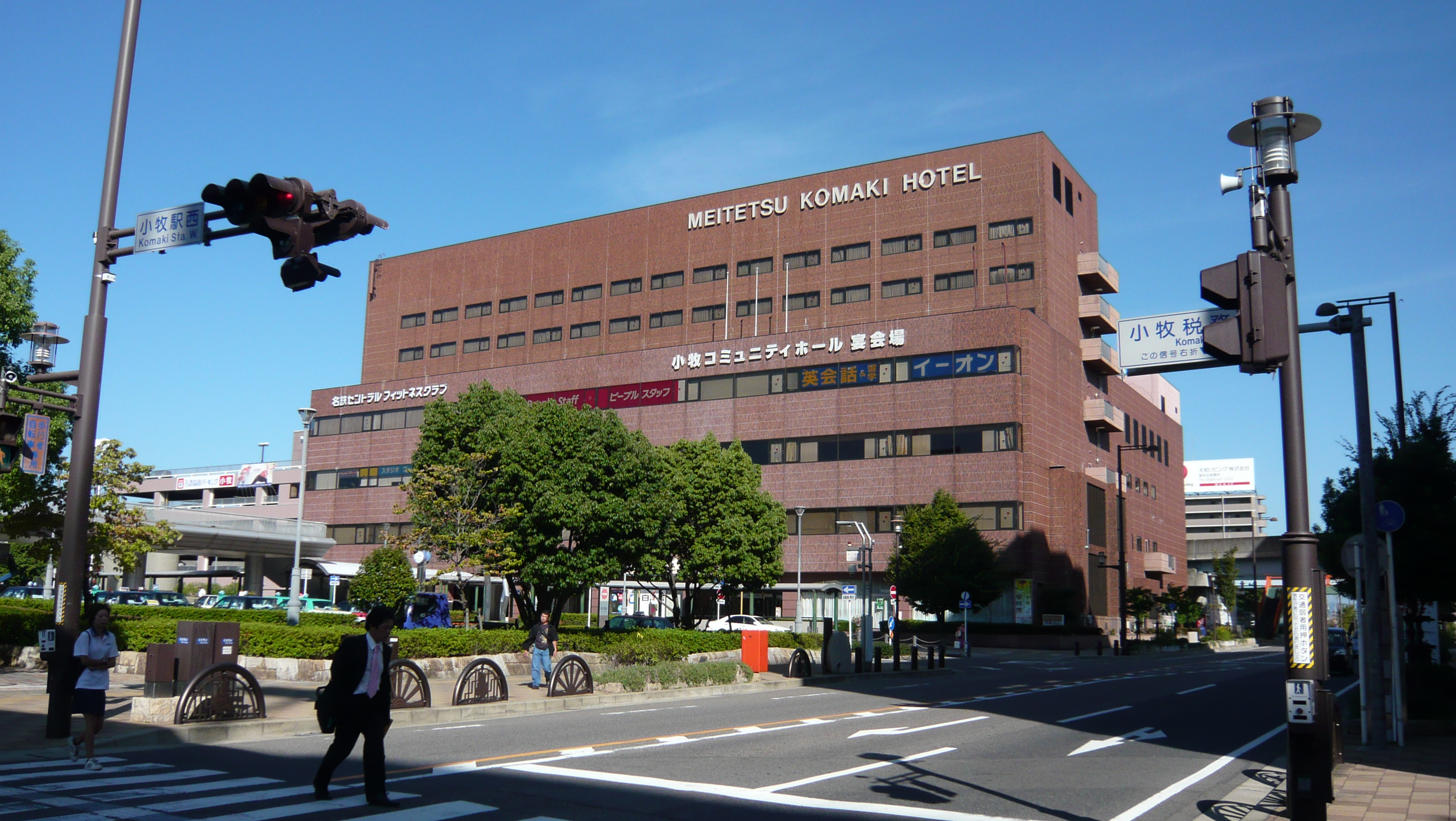 Komaki station of Meitetsu Komaki line